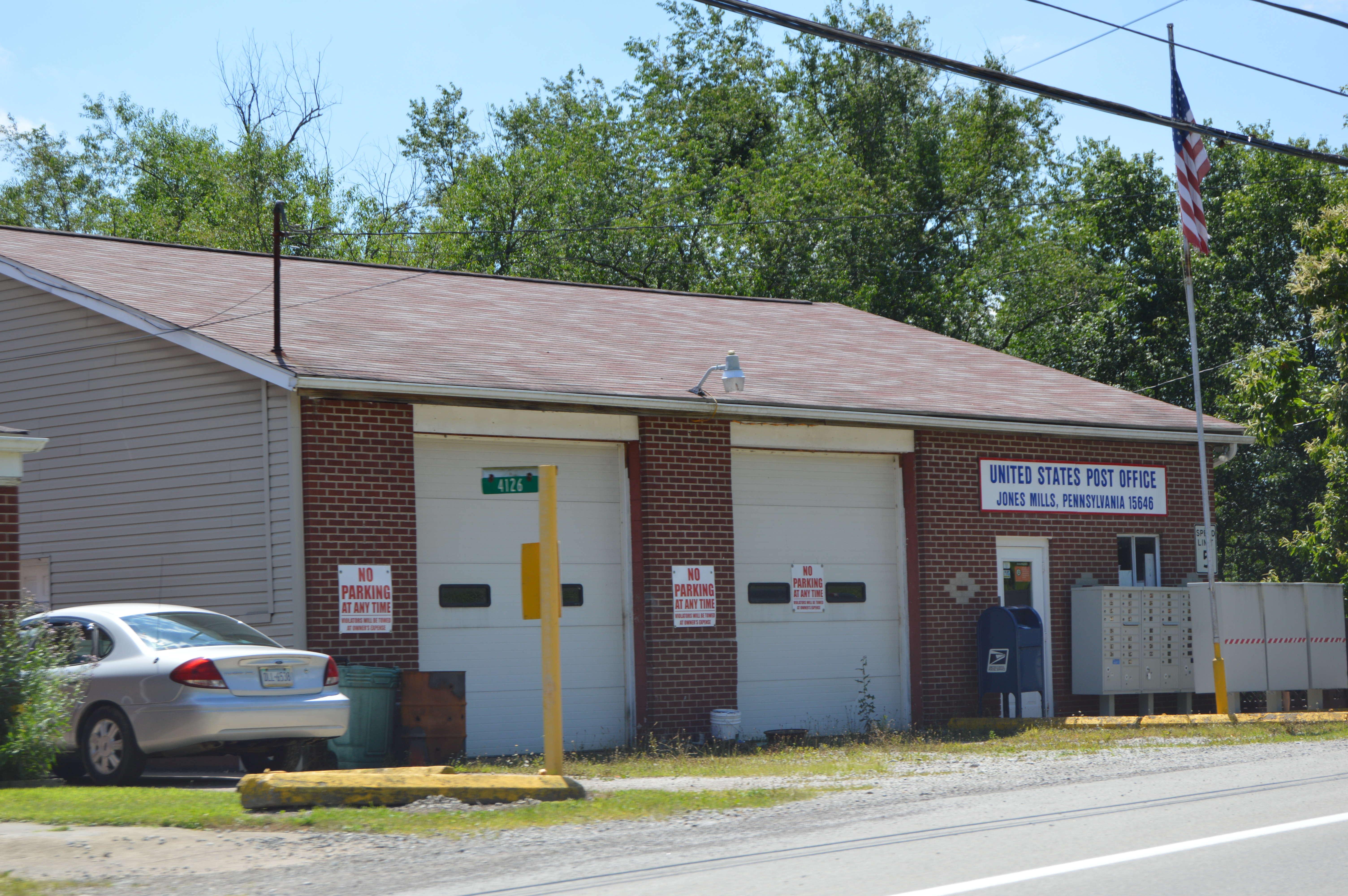 Front of the Jones Mills post office, located at 4124 Pennsylvania Routes 31/381 at Jones Mills in Donegal Township, Westmoreland County, Pennsylvania, United States.